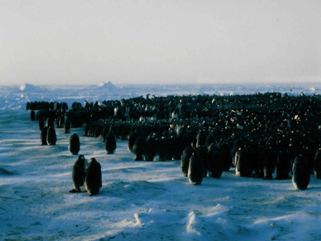 Closeup of Emperor penguin colony in winter